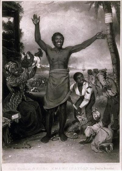 Plate entitled "To the friends of Negro Emancipation", celebrating the abolition of slavery in the British Empire. (Having abolished the slave trade in 1807, popular interest in the issue of slavery declined. However, the revival of anti-slavery agitation, political reform campaigns at home and a massive slave rebellion in Jamaica in 1831 brought the issue to public notice. From 1830 the Anti-slavery Society campaigned for emancipation across all Britain’s colonies. An Abolition of Slavery Bill was eventually passed by parliament in 1833 with abolition set to take place in 1834. £22 million was paid to planters as compensation, although true freedom was not achieved until 1838. Creator: Rippingille, Alexander [artist] (1796-1858); Lucas, David [engraver]; Moon, Francis Graham [publisher] Credit line: National Maritime Museum, London)